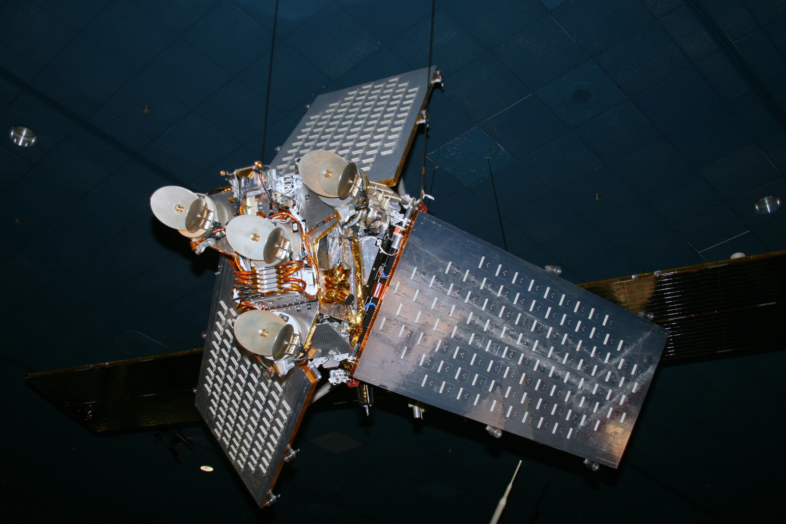 This satellite is the heart of a space-based communications system called Iridium. Conceived, designed, and built by Motorola, the Iridium system provides wireless, mobile communications through a network of 66 satellites in polar, low-Earth orbits. Inaugurated in November 1998, under the auspices of Iridium LLC, this complex space system allowed callers using hand-held mobile phones and pagers to communicate anywhere in the world--a first in the history of telephony. [1]